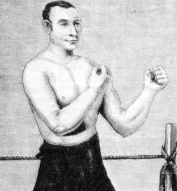 Public Domain picture of Sullivan being used to illustrate his article